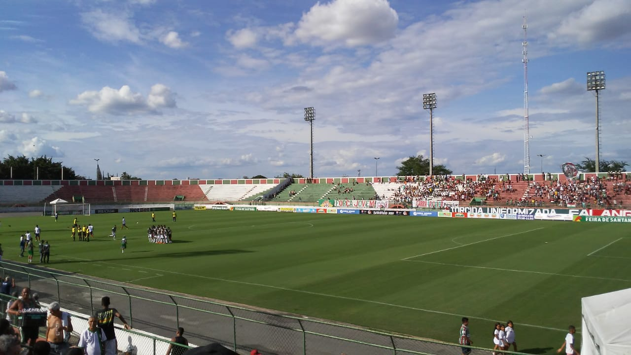 Soccer stadium from Feira de Santana city